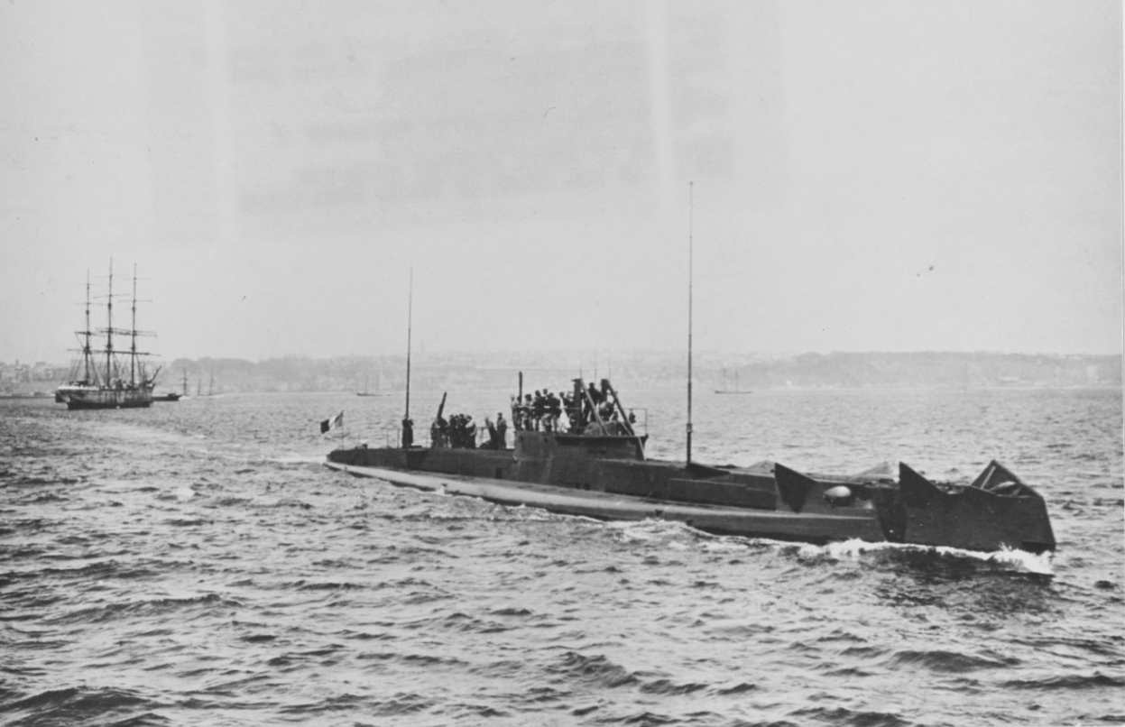 French submarine Daphné underway, 1916–18